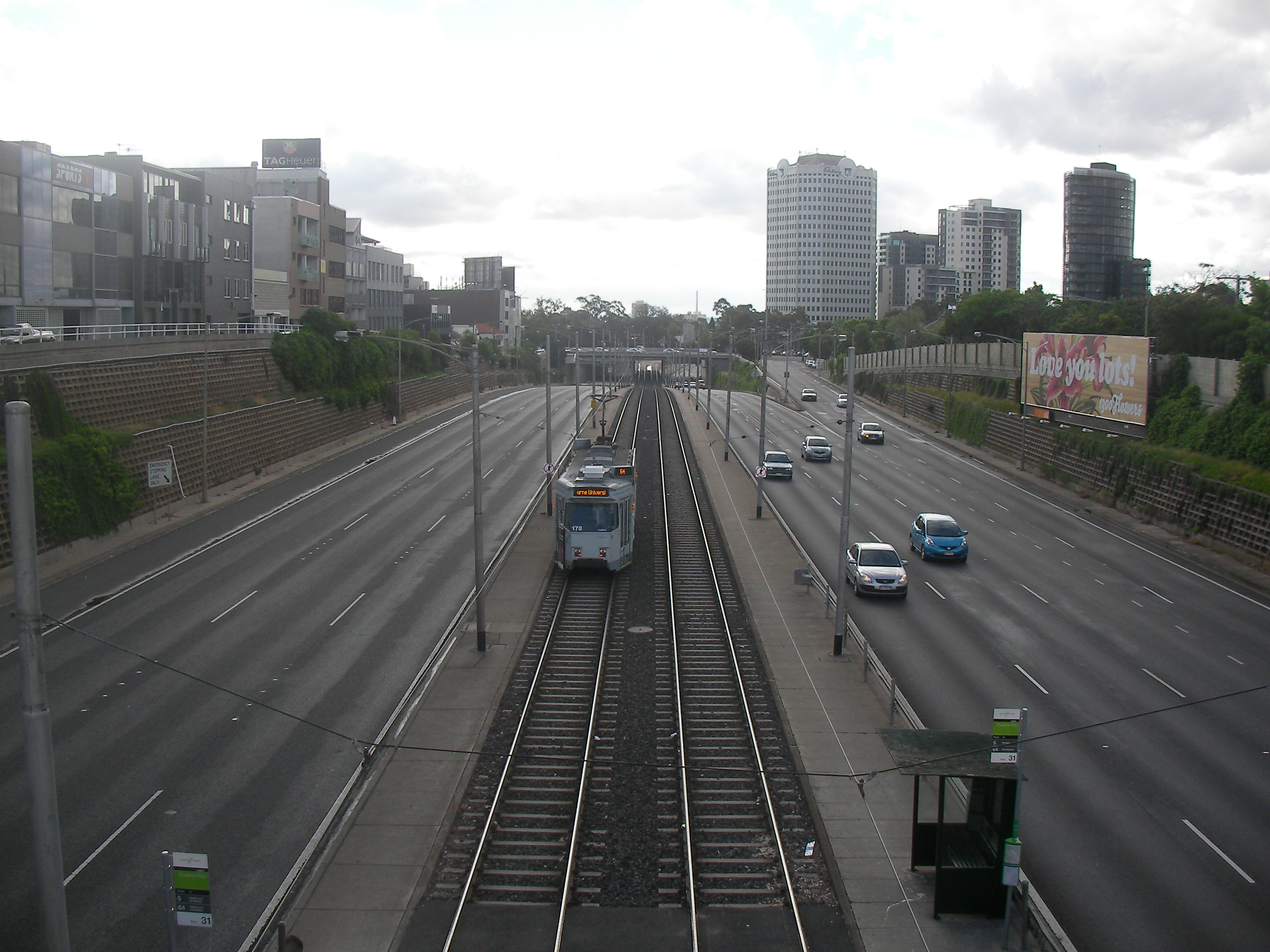 Princes Highway between St Kilda and Windsor looking west